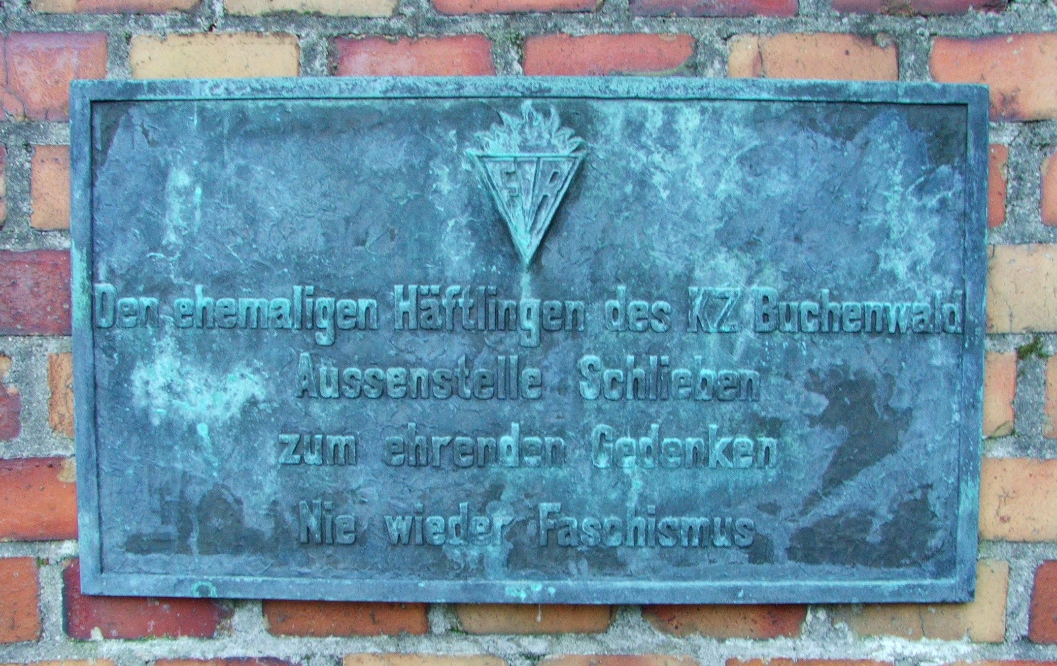 Detail of the monument to the prisoners of Schlieben-Berga concentration camp, a labor subcamp of Buchenwald, also known as HASAG Werk Schlieben, in the Berga quarter of Schlieben, Germany. The plaque says, "Memorial to the the former prisoners of Buchenwald concentration camp/Subcamp Schlieben. Never again!"